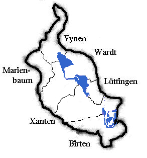 corrected borders as of March 4, 2010